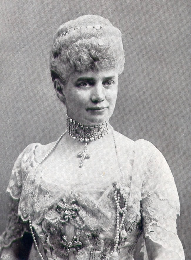 Princess Thyra of Denmark, later duchess of Cumberland